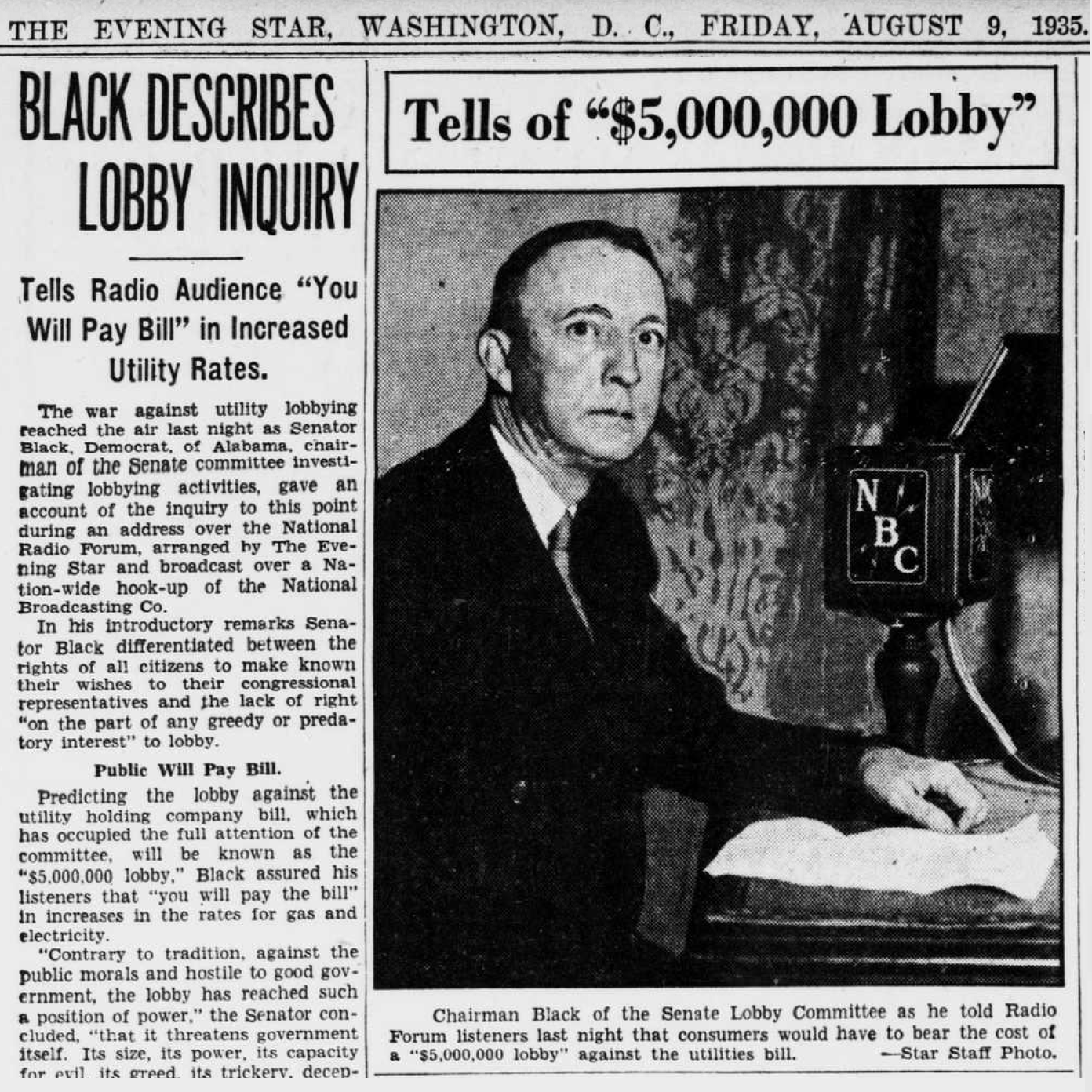 In the middle of a month long Senate investigation of the electric industry's attempt to block the Rayburn-Wheeler Bill, Senator Black went on a live NBC nationwide radio show to expose the $5 million lobby campaign.